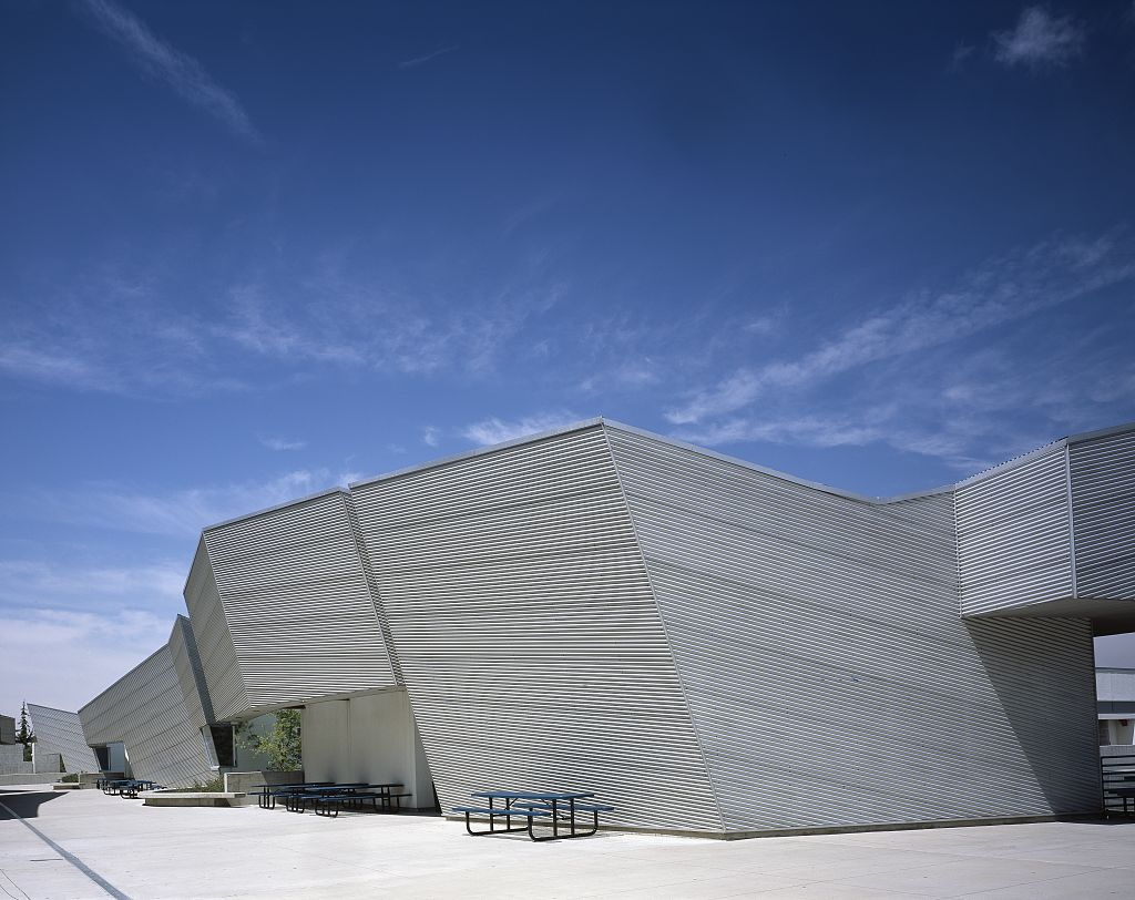 Buildings on the campus of Diamond Ranch High School, Pomona, California, USA